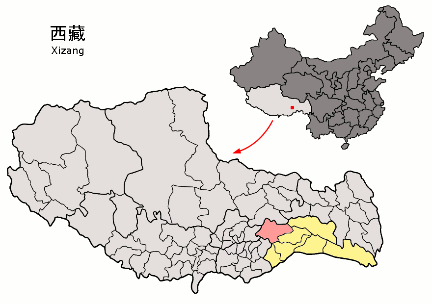 Location of Nyingchi County (pink) and Nyingchi prefecture (yellow) within Tibet (Xizang) autonomous region of China